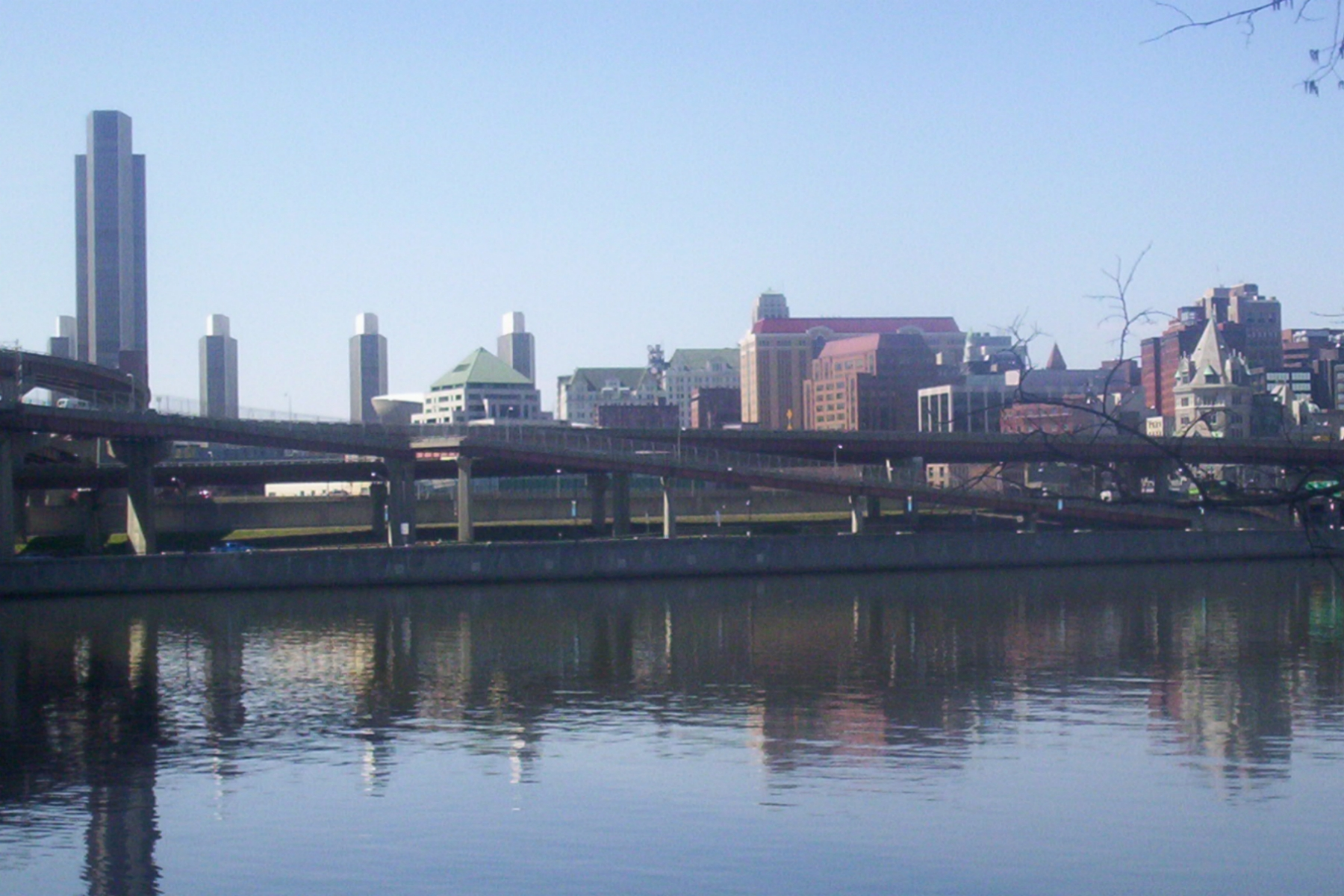 I (Kurt Reichardt) took this picture in April, 2005 from across the Hudson River in Rensselaer, NY